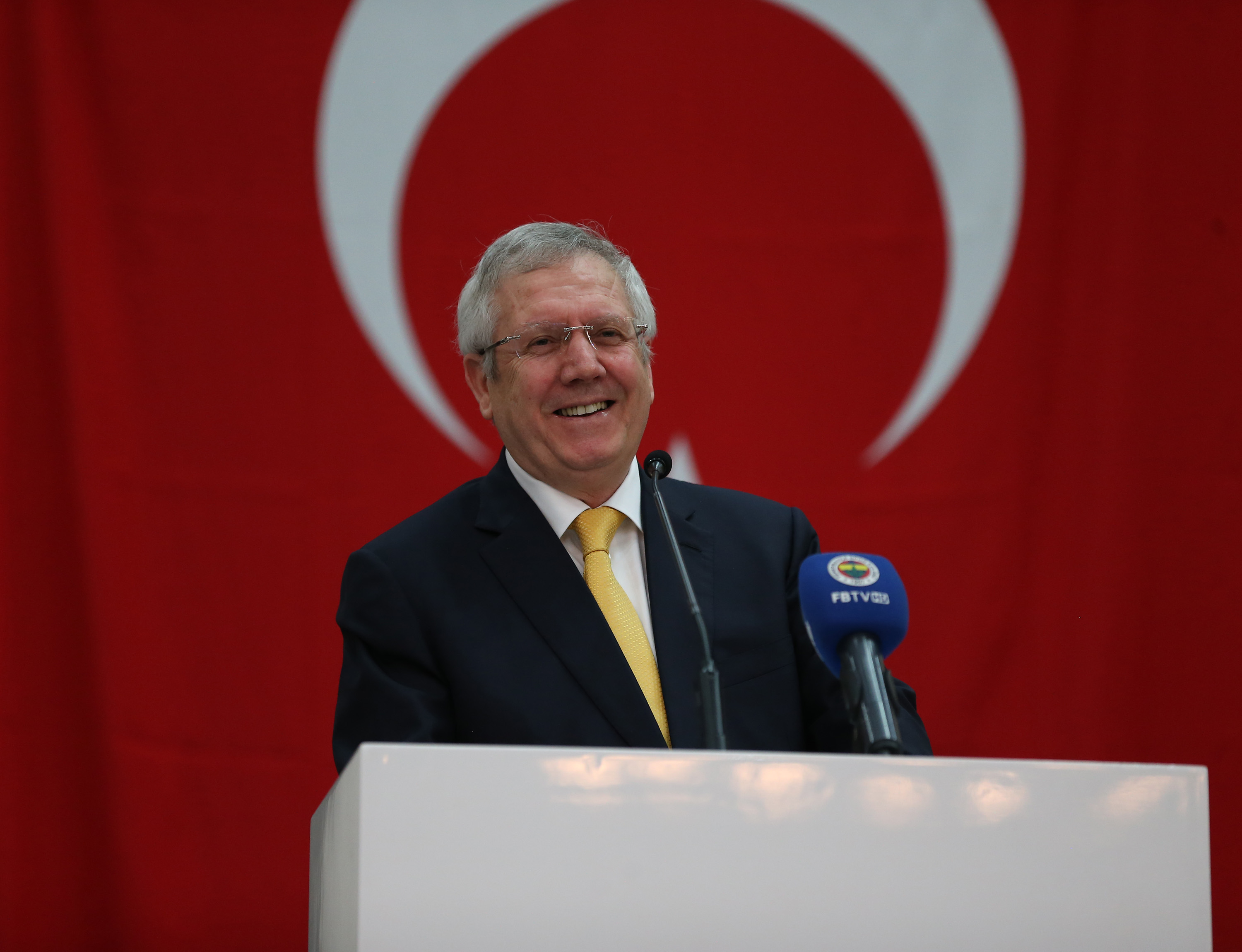 Aziz Yildirim